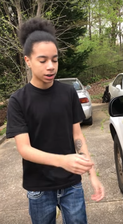 YBN Namhir in April 2017 during a freestyle